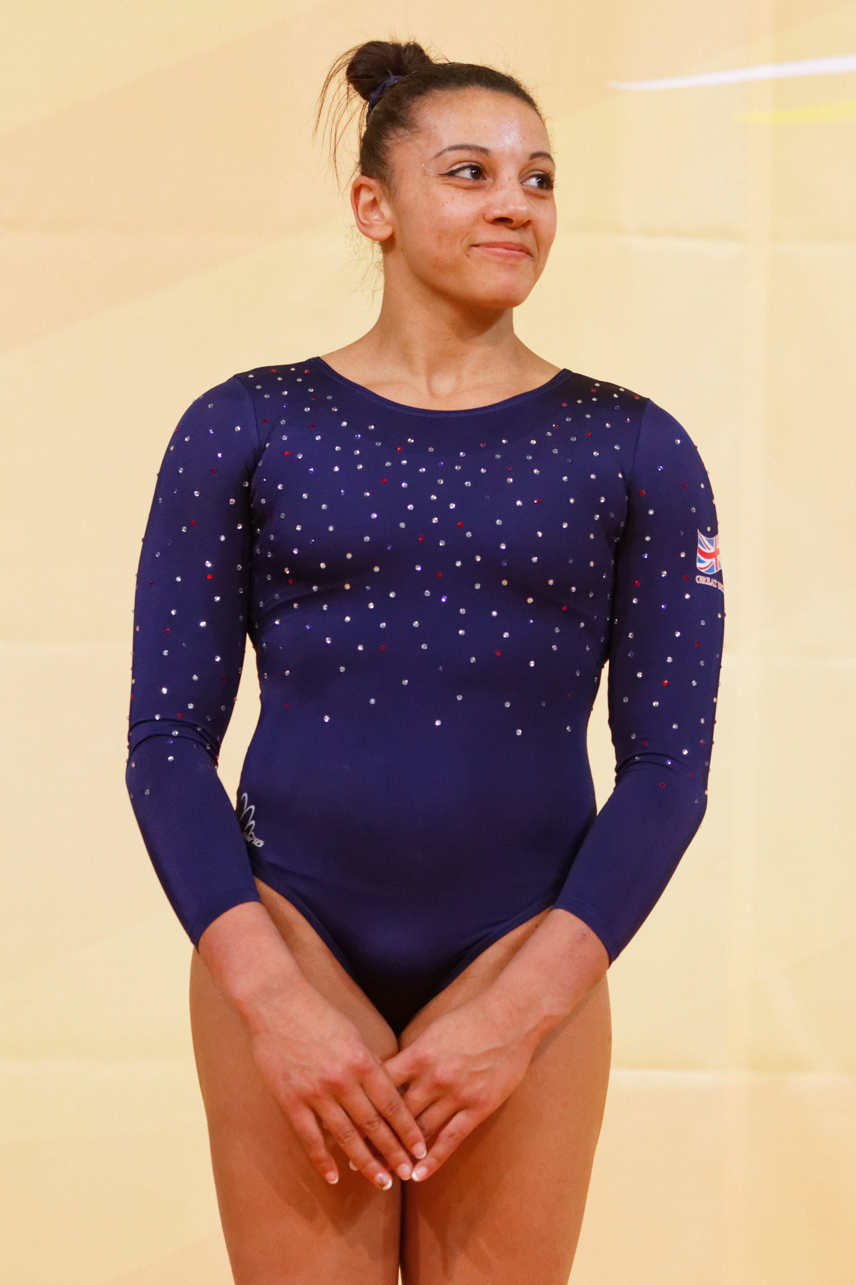 2015 European Artistic Gymnastics Championships. Bamance beam.